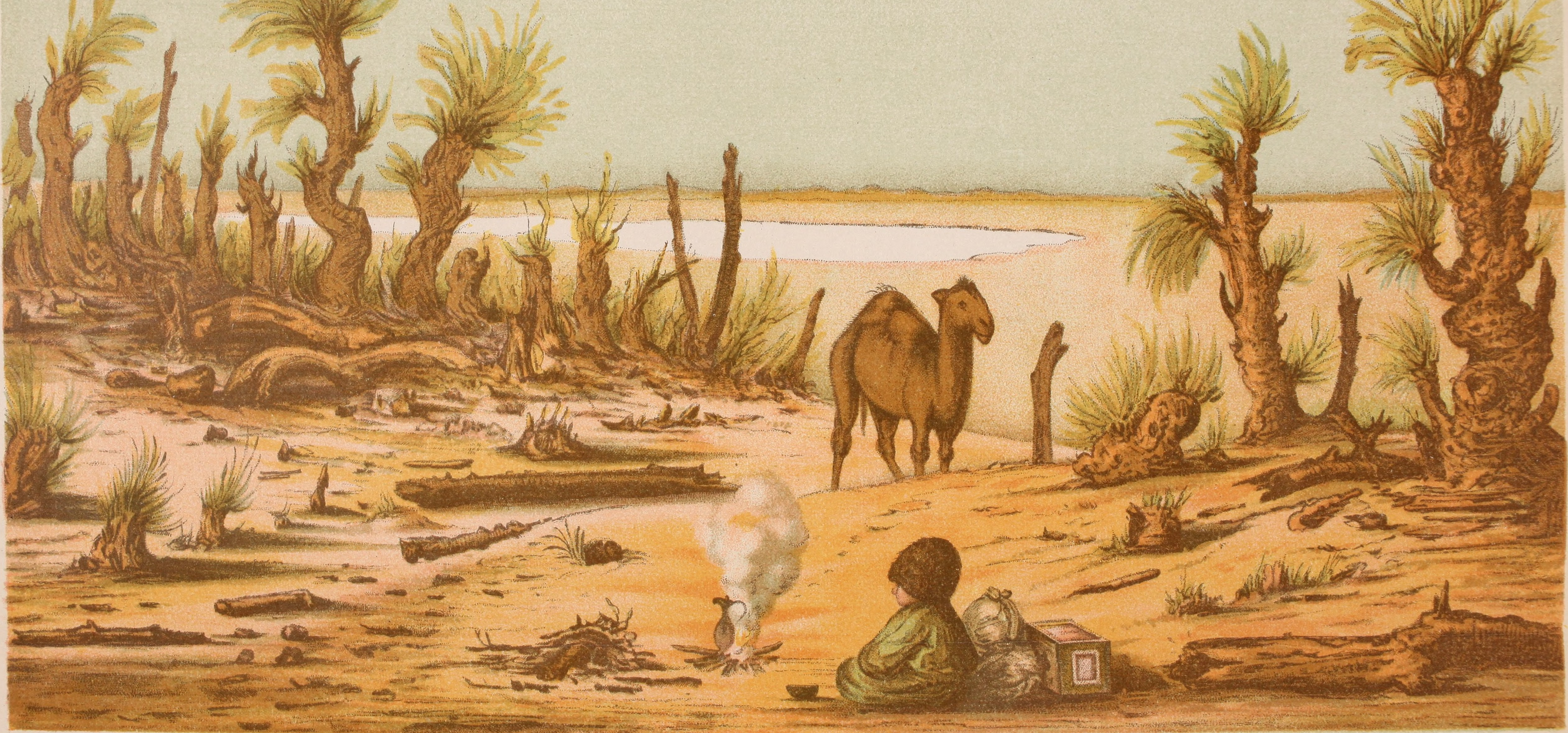 Title: Bulletin de la SociÃ©tÃ© impÃ©riale des naturalistes de Moscou Year: 1884 (1880s) Authors: Moskovskoe obshchestvo liubitelei prirody Subjects: Science; Geology; Natural history; Biology Publisher: Moscou : Typ. de l'UniversitÃ© impÃ©riale Text Appearing Before Image: ,1 ( Ð¾Ñ?- t . Ð. I . I : Y ' 1 \ÐÑ Ðº Ð Text Appearing After Image: N. Sorokine ad liÃ¢t, pinxlt Lilli. W. liacliDiann, Moscou. Les broussailles du bois Sacsaoul Ã Kizil-Kouml